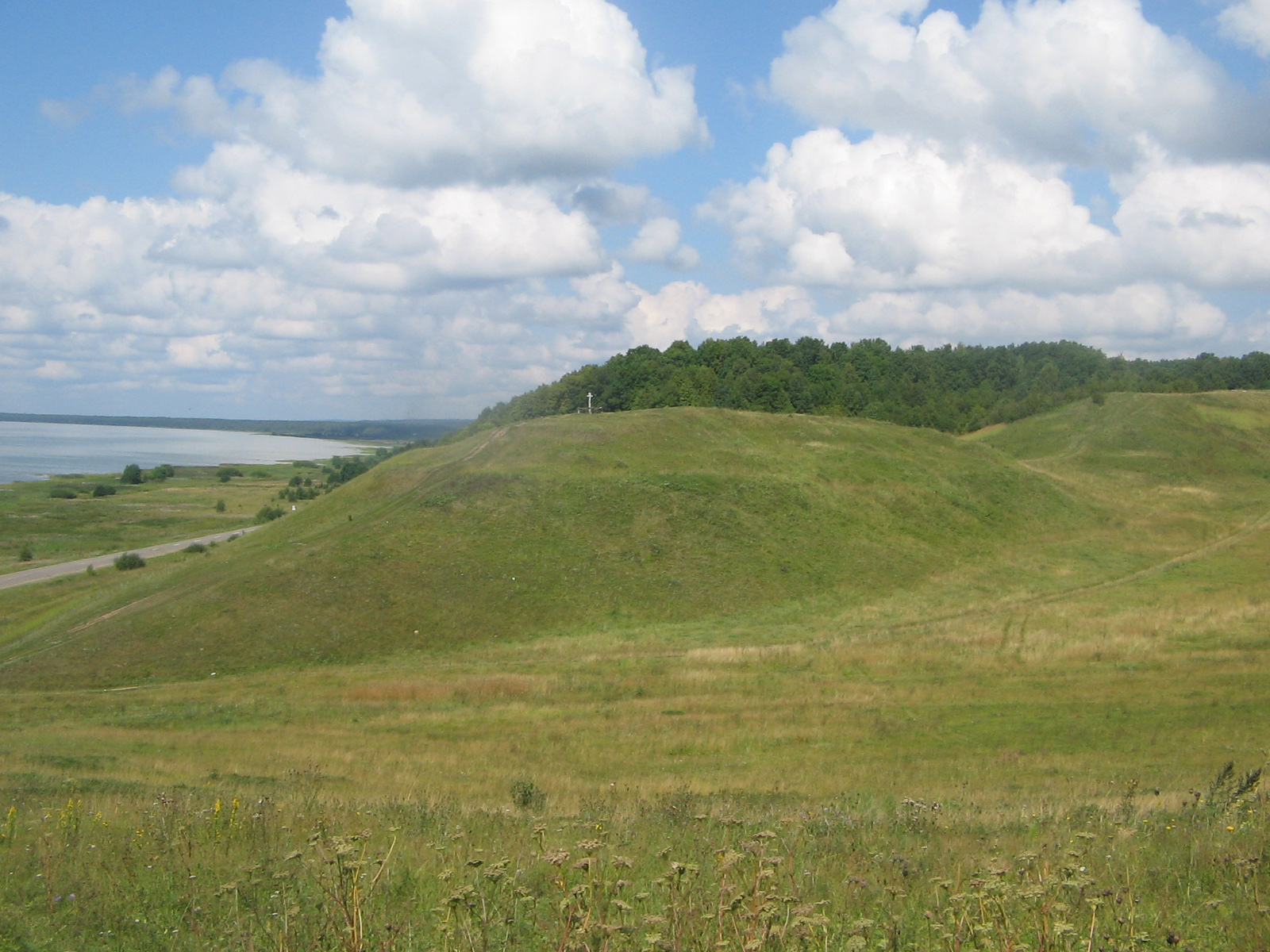 Mountain Aleksandrova